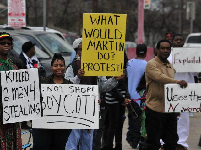 Picture of the Diamond Shamrock and Kwik Stop Boycott in Dallas Texas. The signs read: Don't stop, don't stop. Killed a man [Marcus Phillips] 4 [sic] stealing What would Martin do? Protest Uses [sic] the N word.